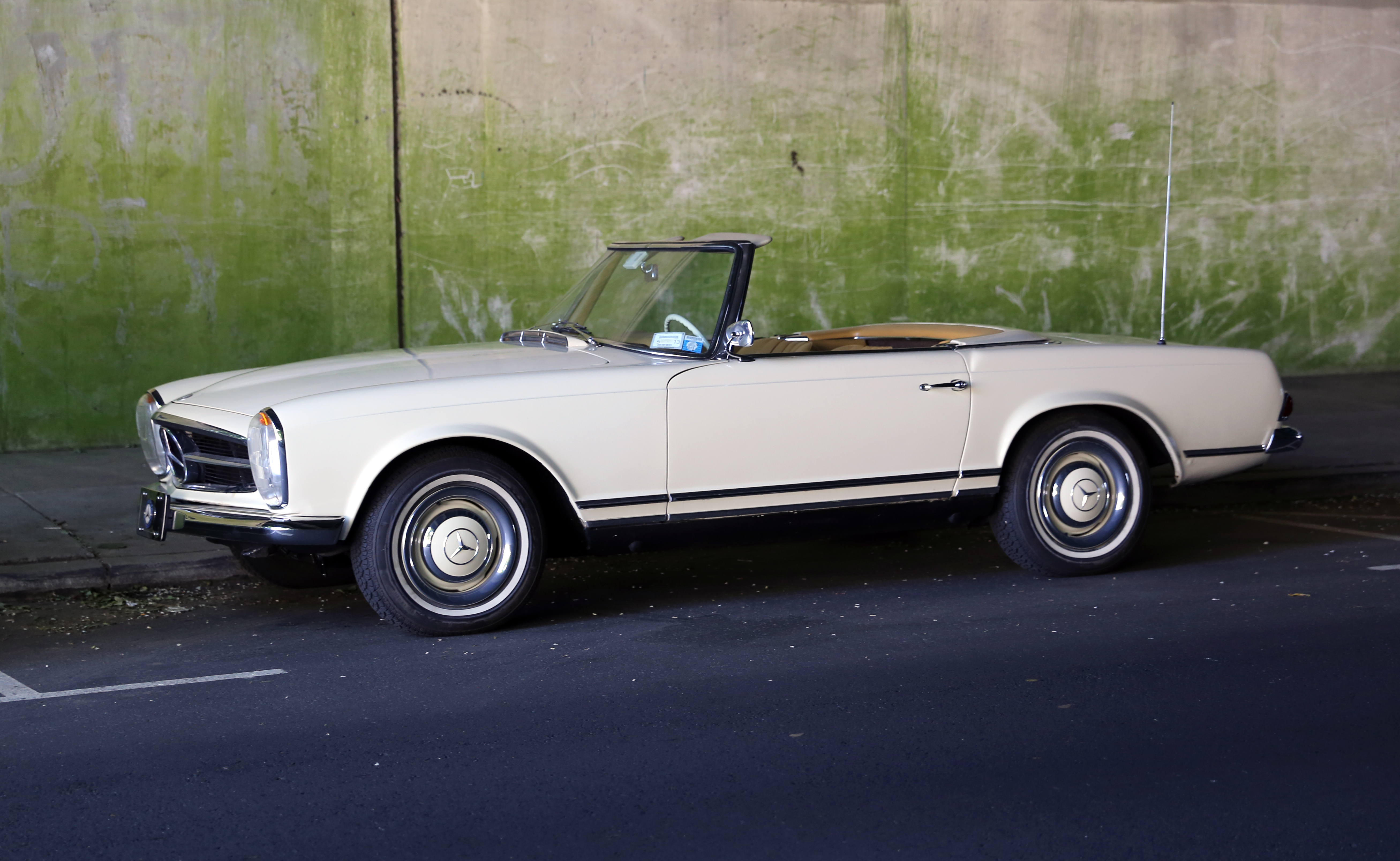 Lovely well-kept ivory Mercedes-Benz 230SL Automatic. An early one, under an overpass in Greenwich. Spillover from the Concours d'Elegance.